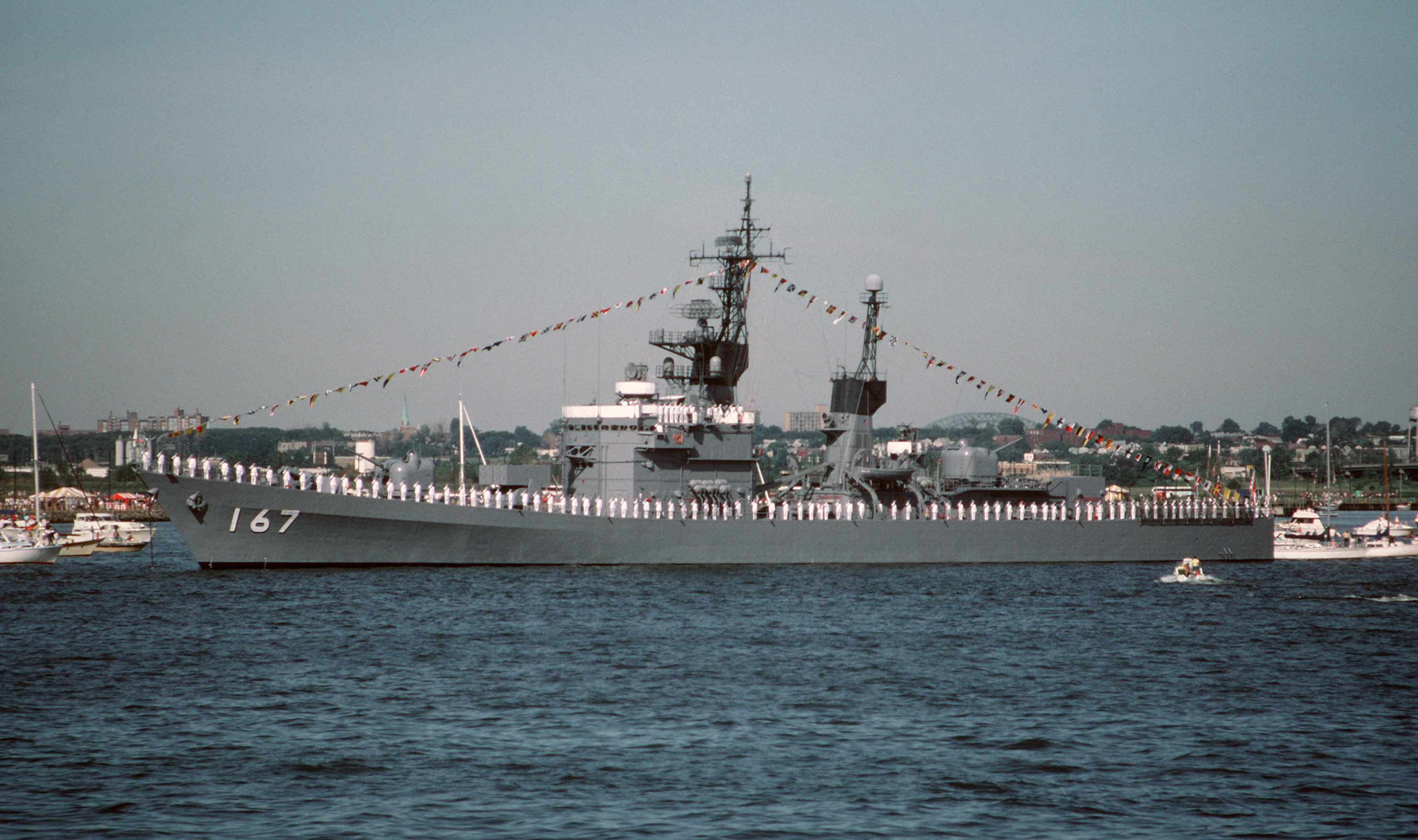 Crew members man the rail aboard the Japanese destroyer Nagatsuki (DD-167) during the International Naval Review.